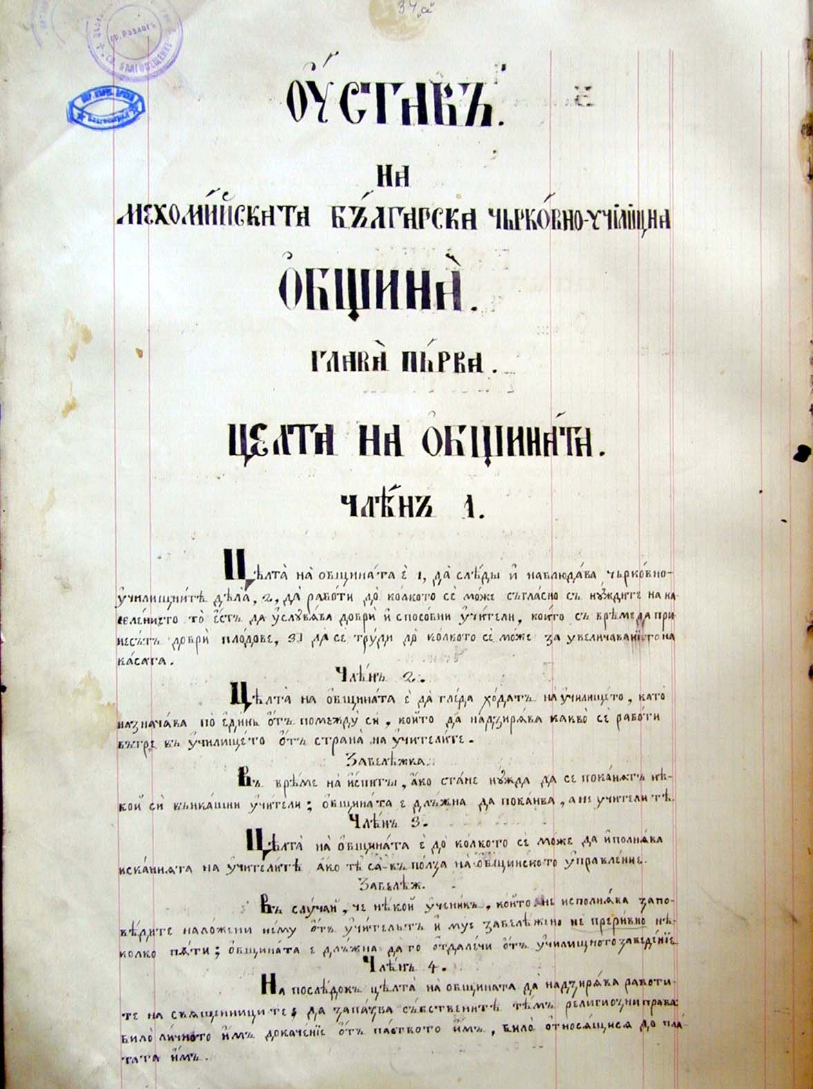 Statute of the Mehomia Bulgarian Municipality.